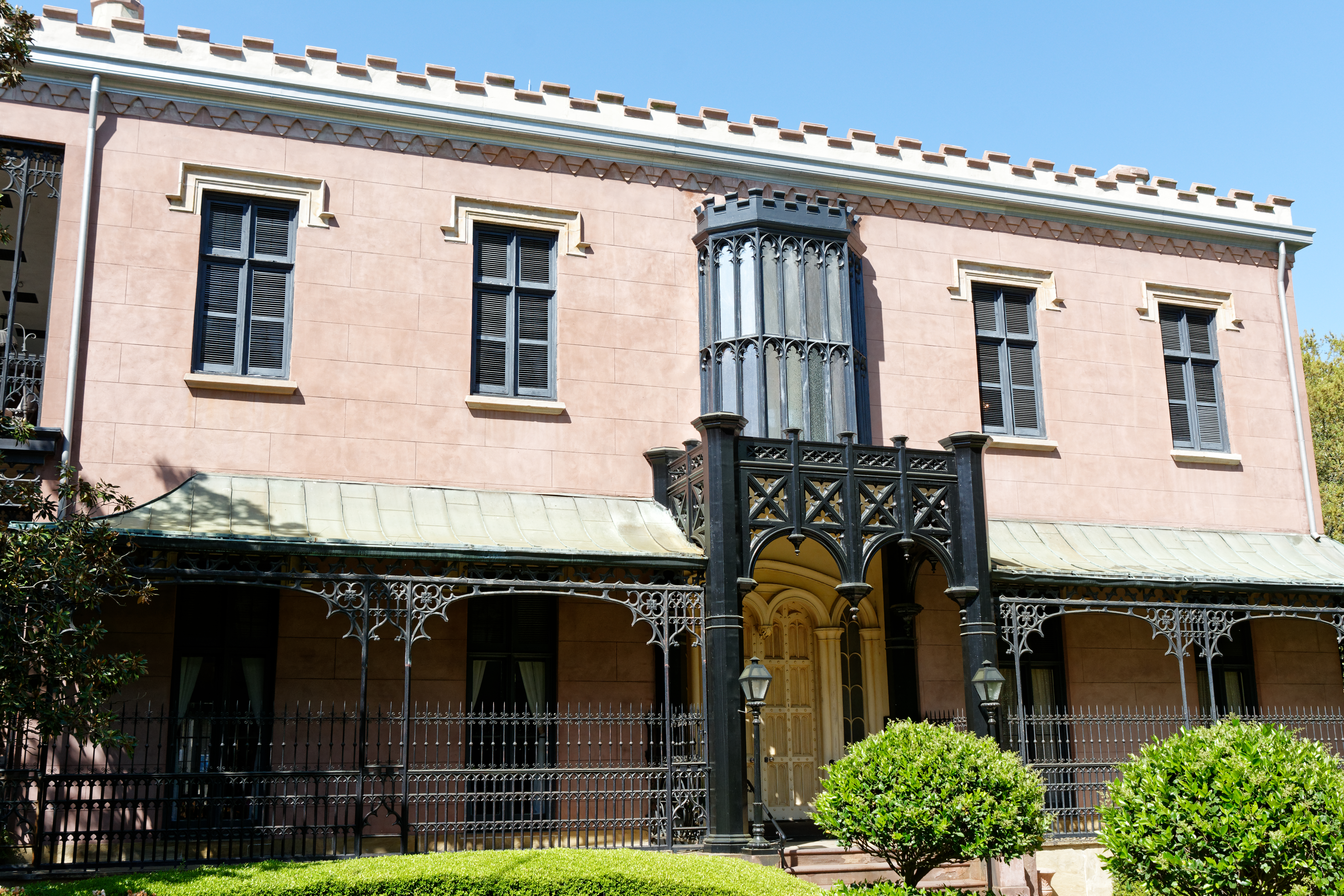 Green-Meldrim House in Savannah, GA, US. Sherman used this for his headquarters after he captured Savannah.